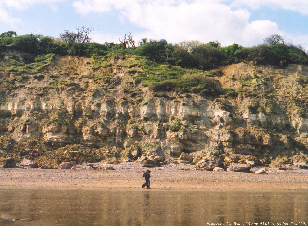 The Bembridge Limestone Formation at Whitecliff Bay, Isle of Wight, southern England. Clearly visible the lower and upper limestone layer separated by a dark marly mud bed. Courtesy Dr. Ian West who granted permission via email on 2011-09-23.